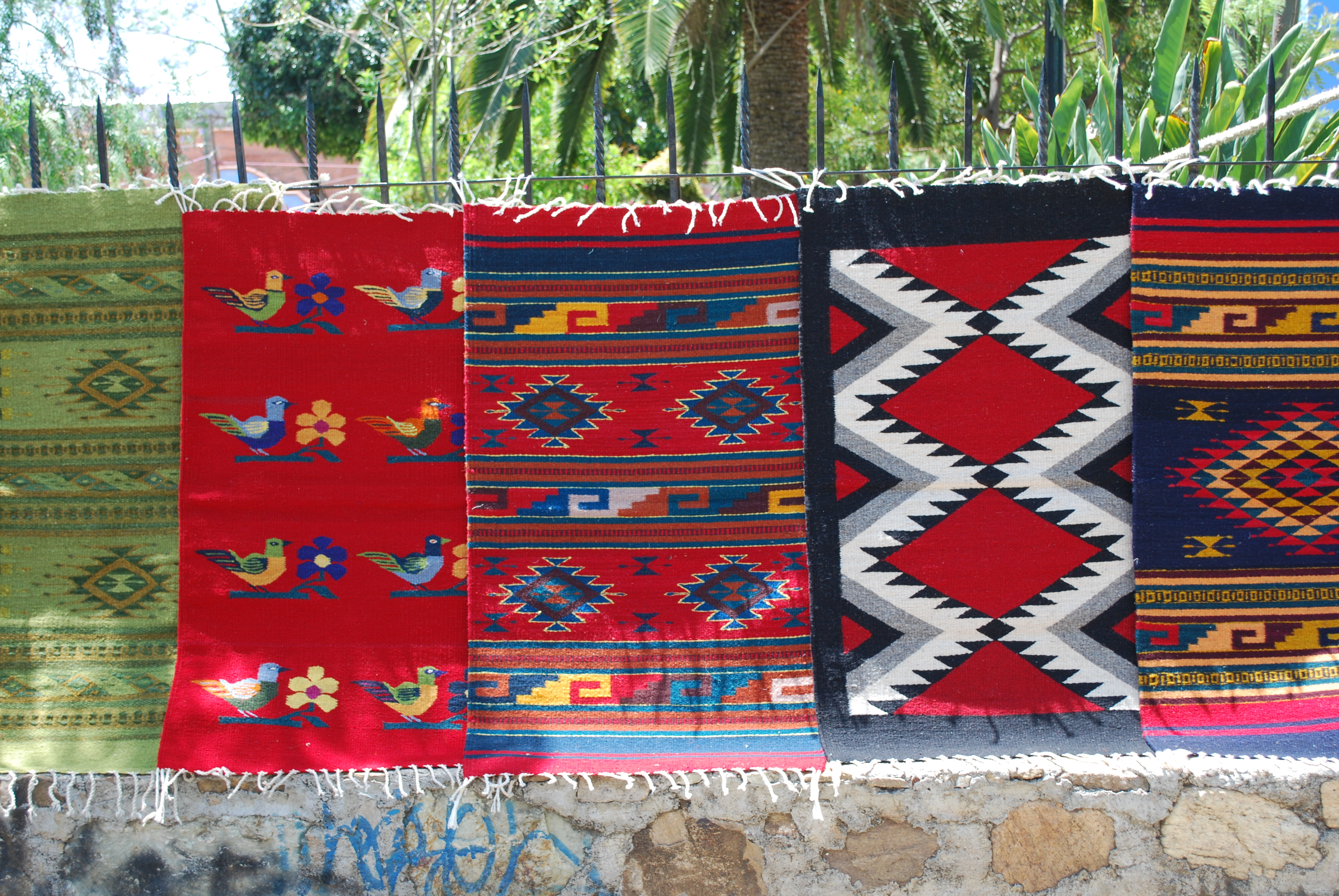 Handcrafted rugs for sale at the Thursday weekly market in Zaachila, Oaxaca, Mexico